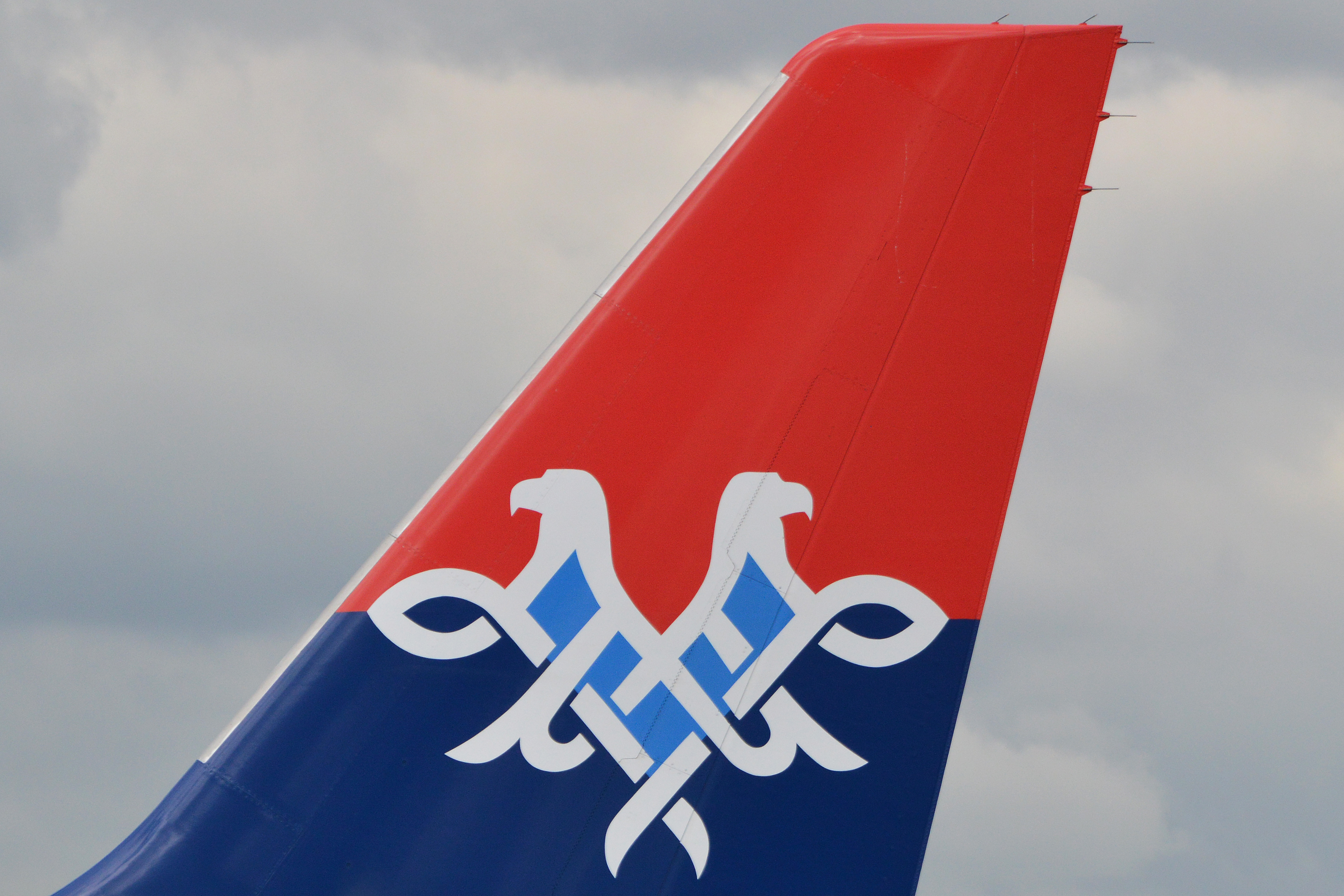 London Heathrow. 19-4-2014